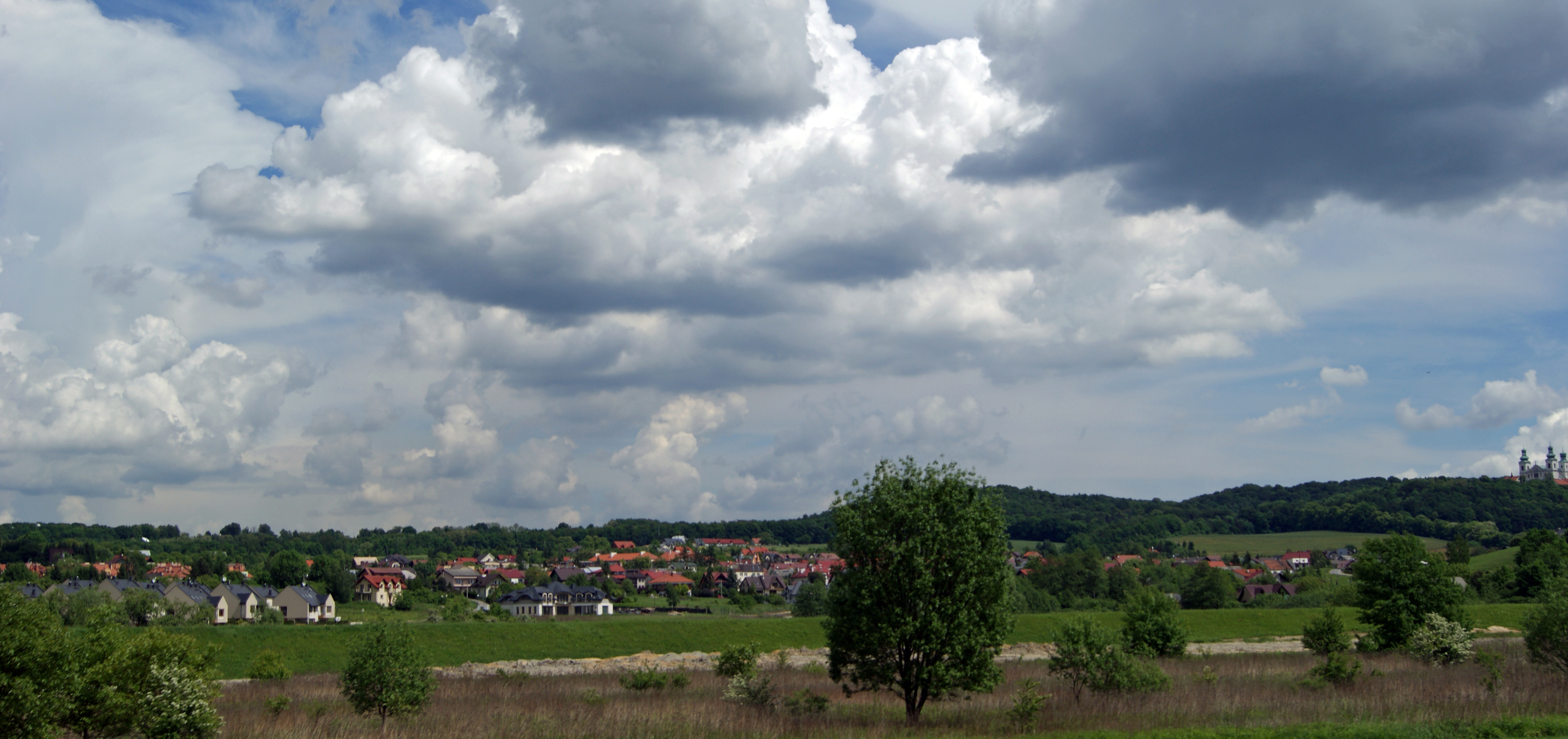 Bielany (formerly XXXII quarter of a city), Krakow, Poland